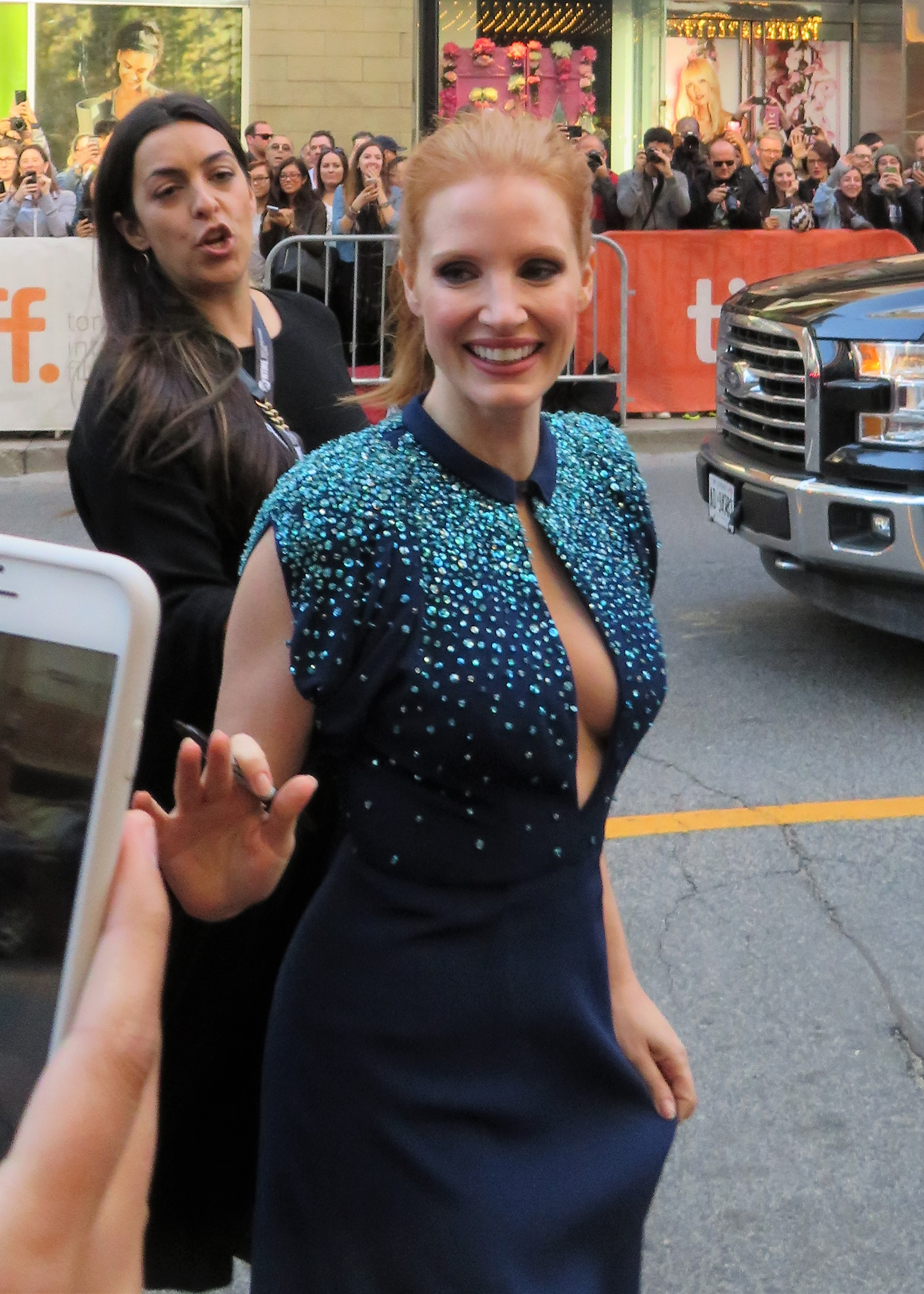 Jessica Chastain at the premiere of Molly's Game, 2017 Toronto Film Festival